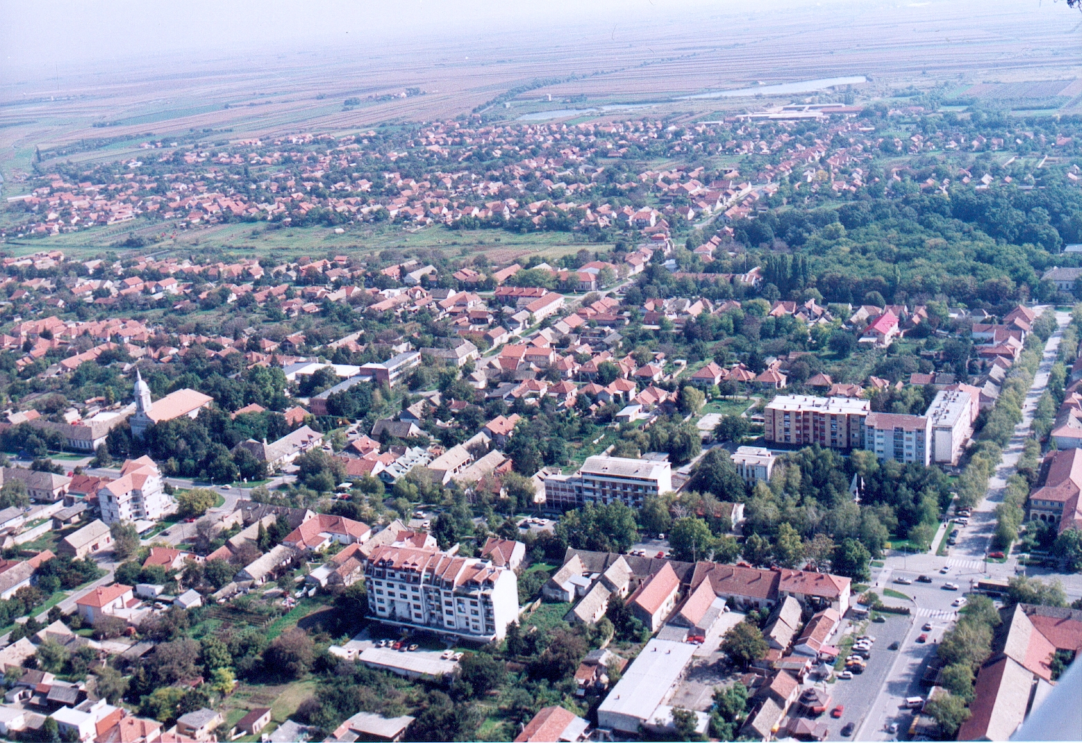 Temerin from air